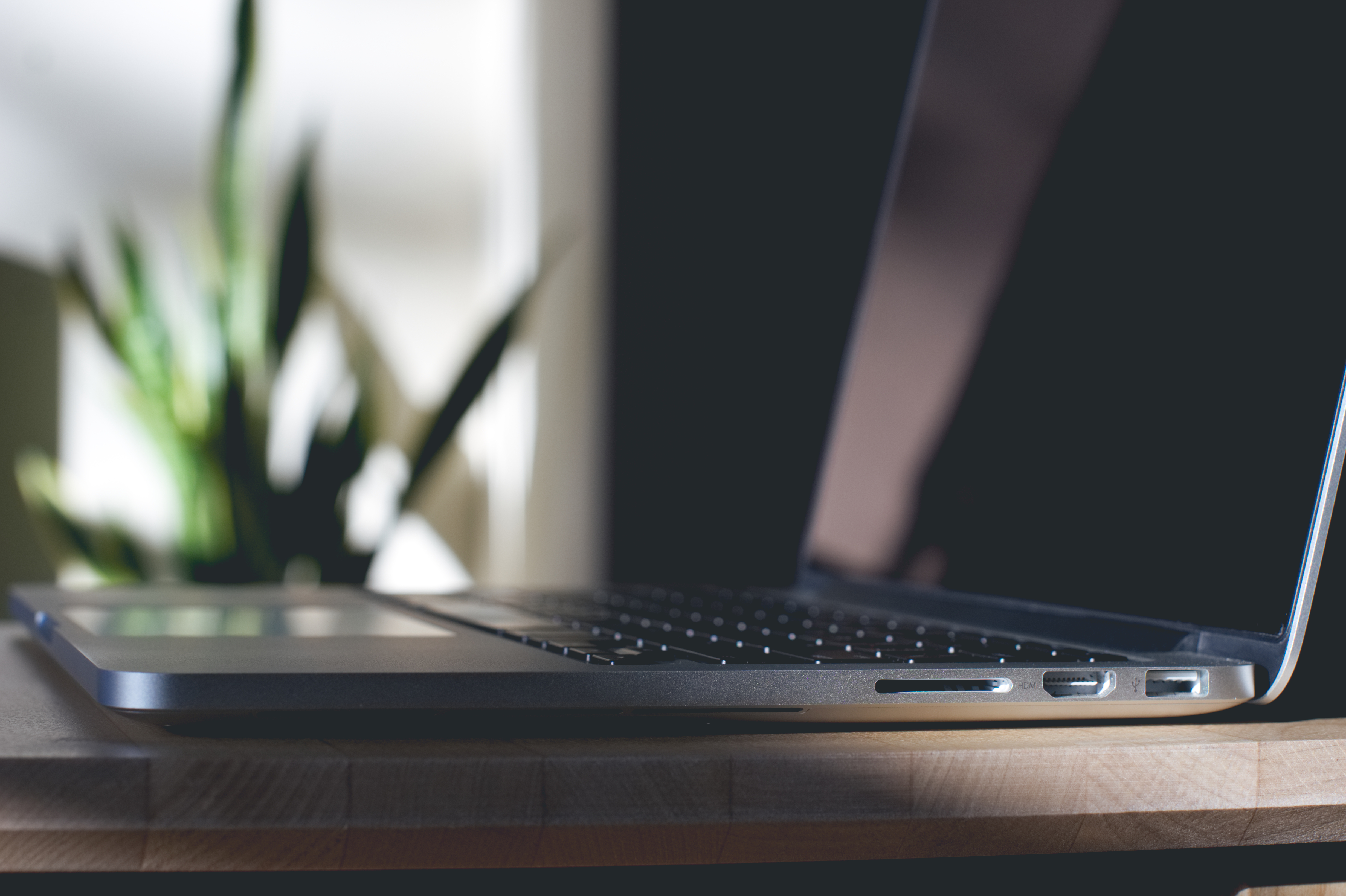 Midtown, Atlanta, United States